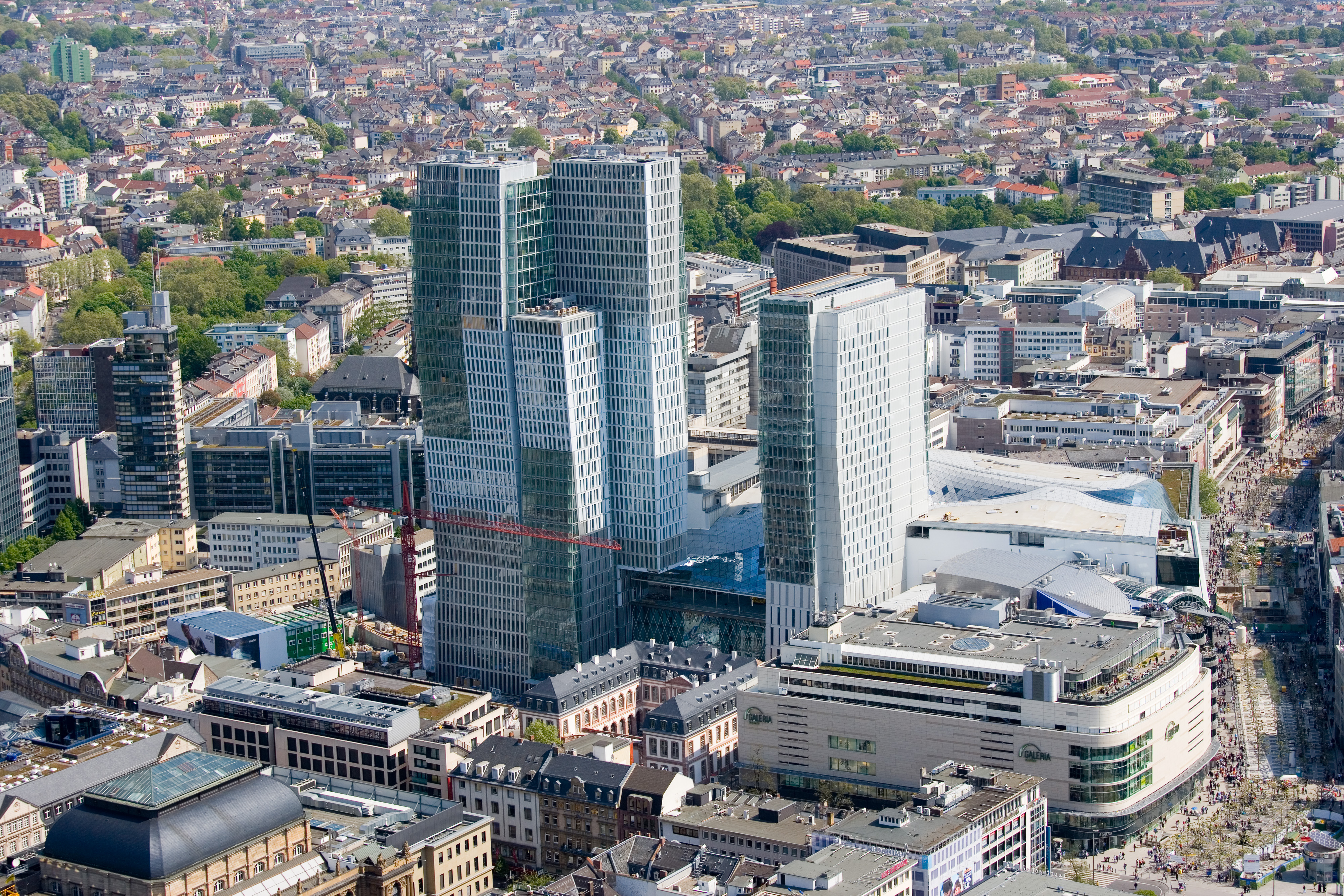 Frankfurt on the Main: PalaisQuartier as seen from the Maintower